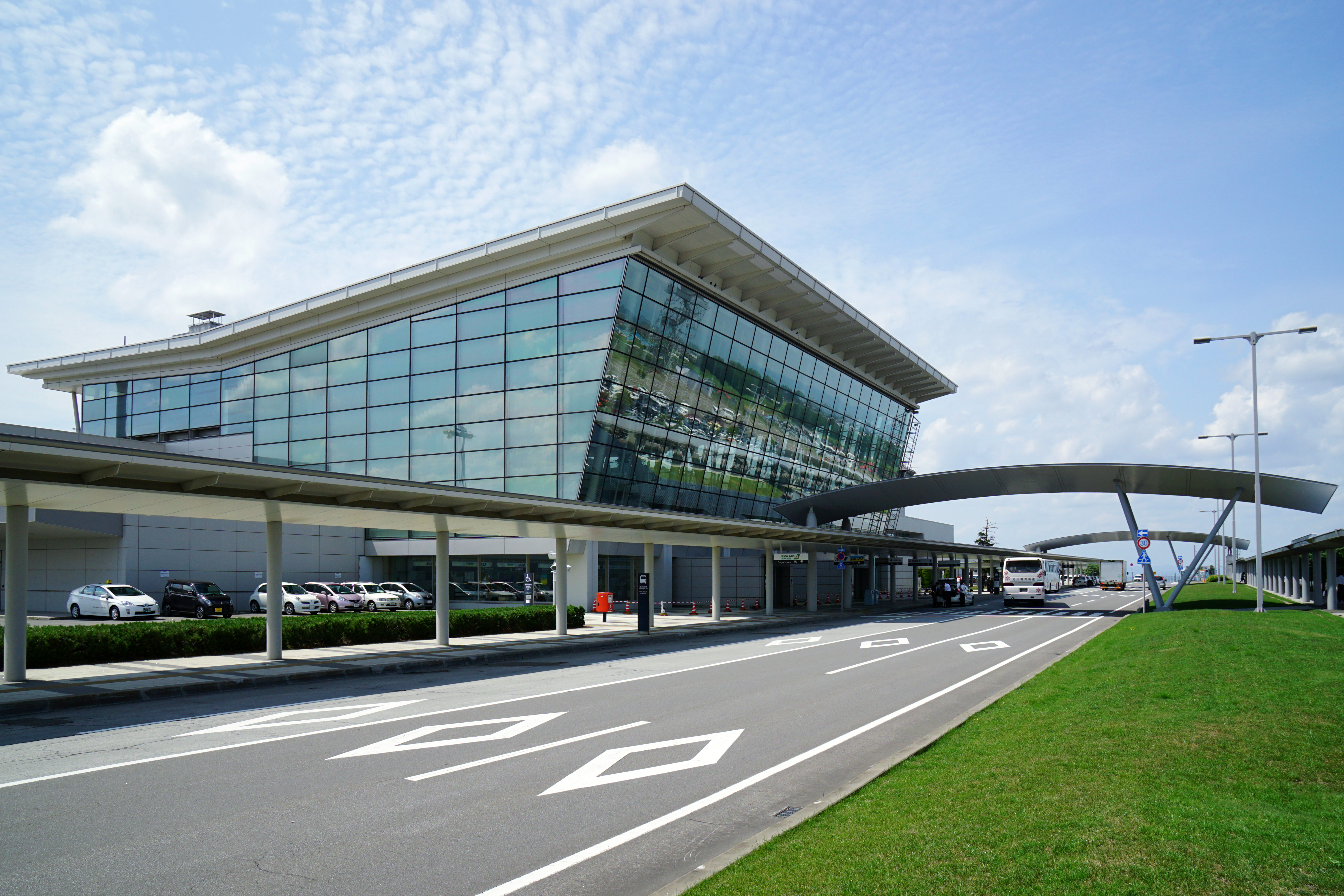 Asahikawa Airport in Asahikawa, Hokkaido prefecture, Japan.